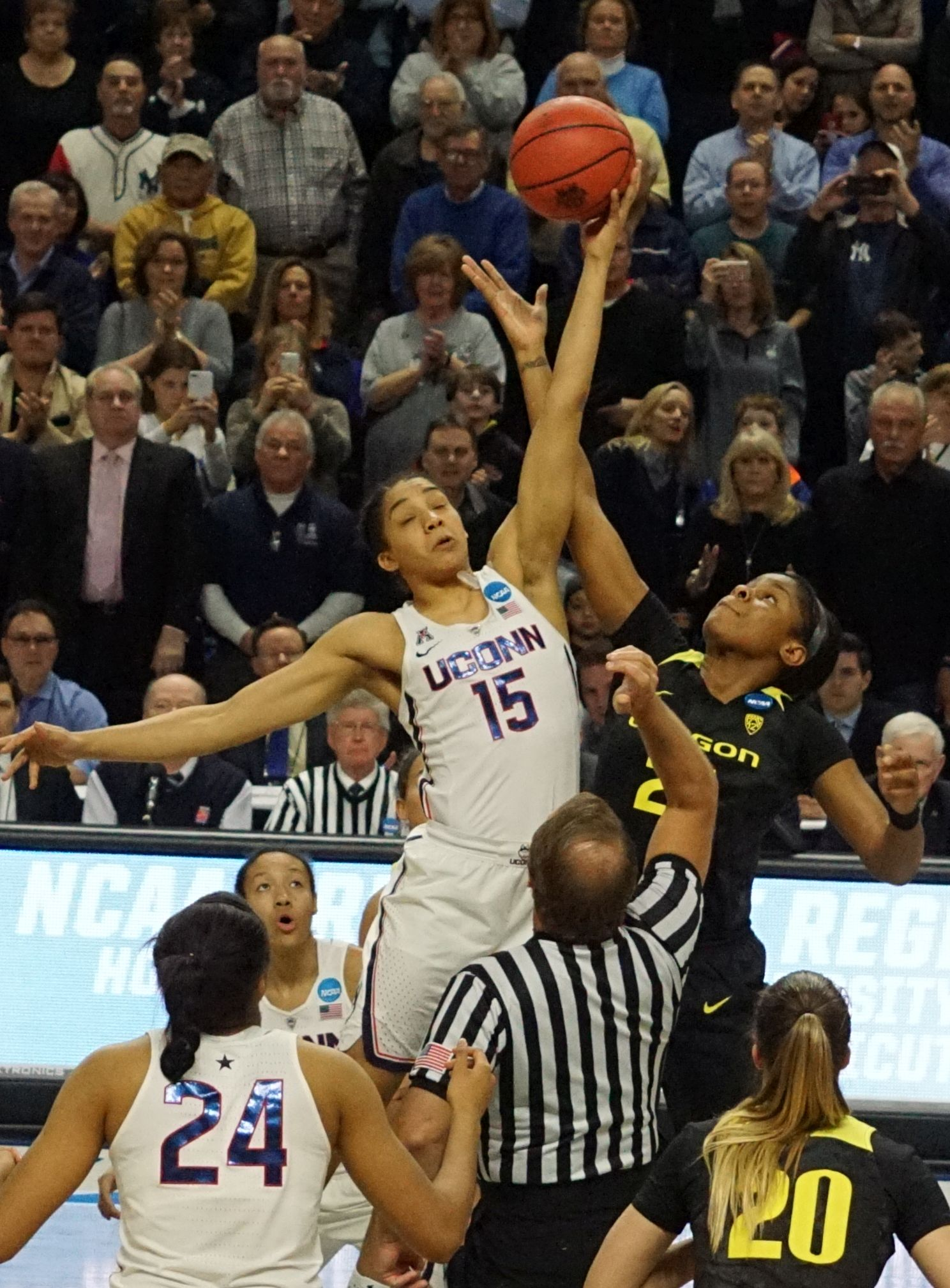 Gabby Williams, 5'11" against 6' 4" Ruthy Hebard in opening tip